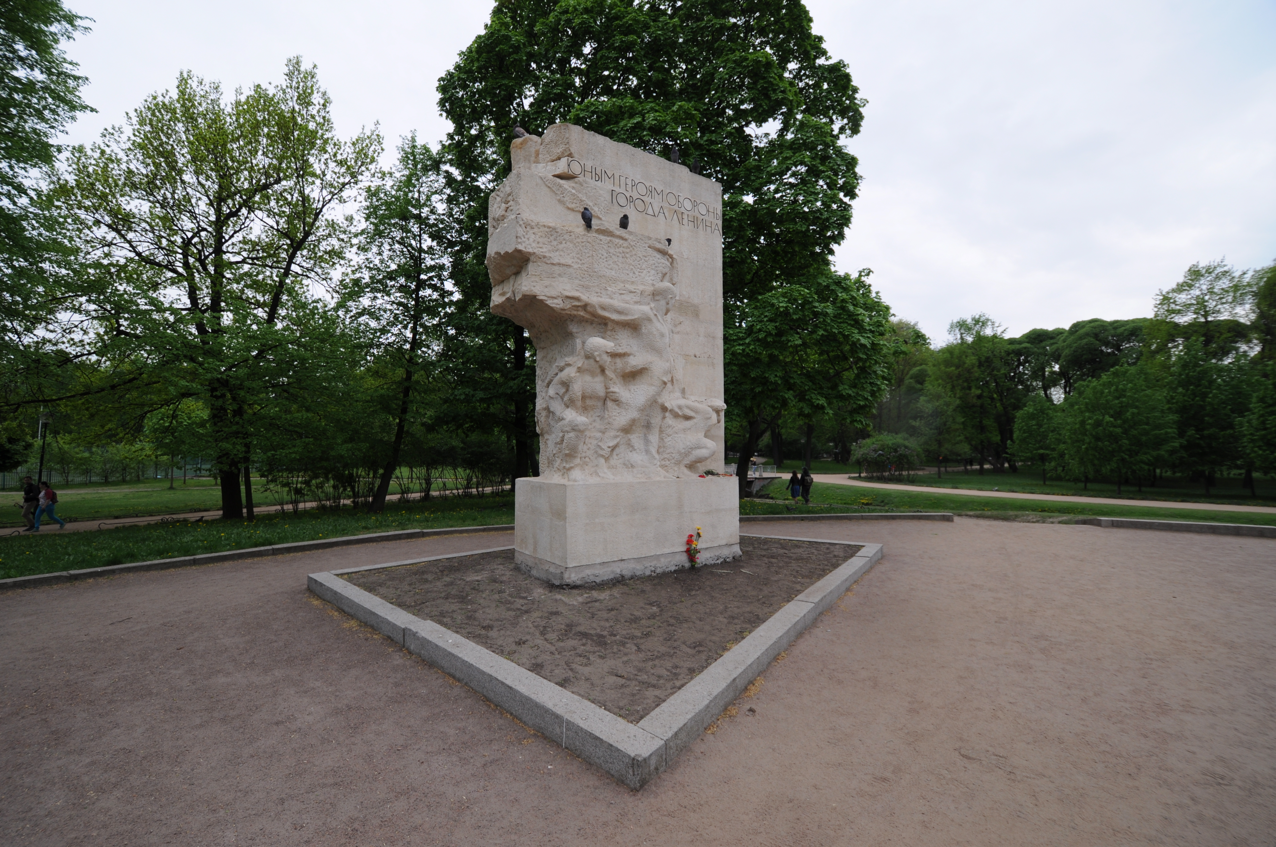 Monument to Young Pioneer Heroes in Tauride Garden